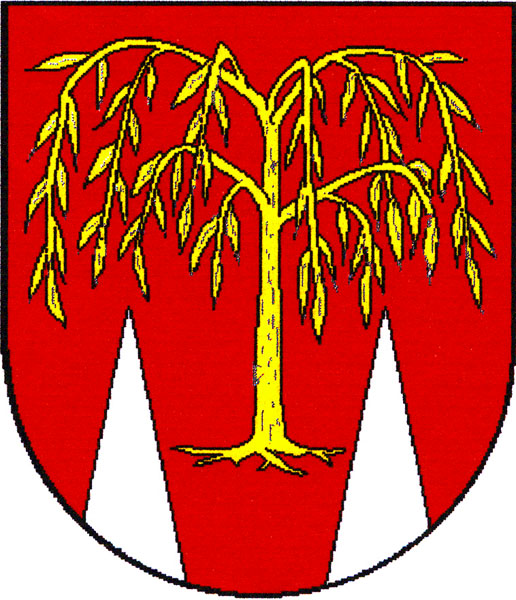 Municipal coat of arms of Tučapy village, Vyškov District, Czech Republic.